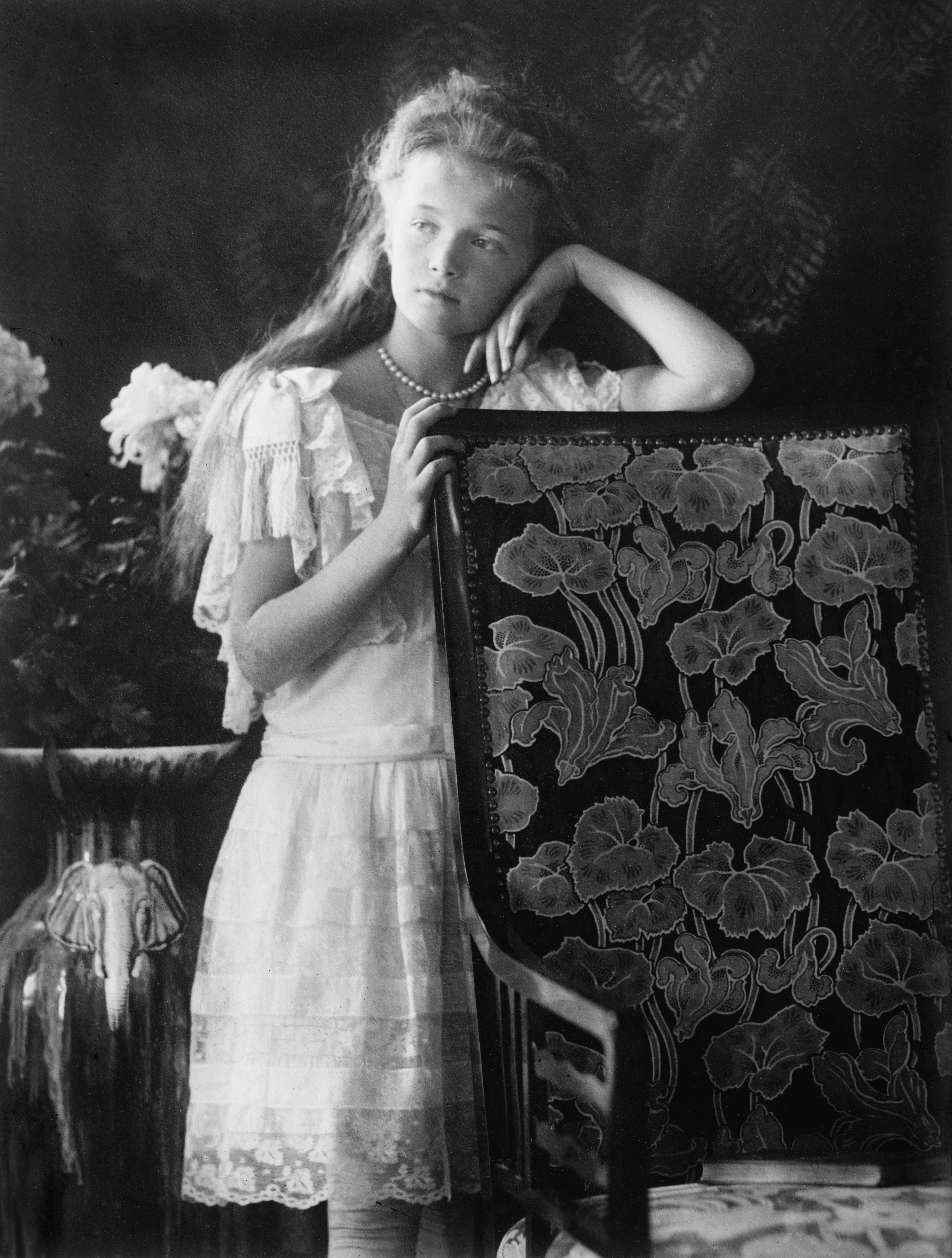 Grand Duchess Olga Nikolaevna of Russia (1895-1918) in 1906.